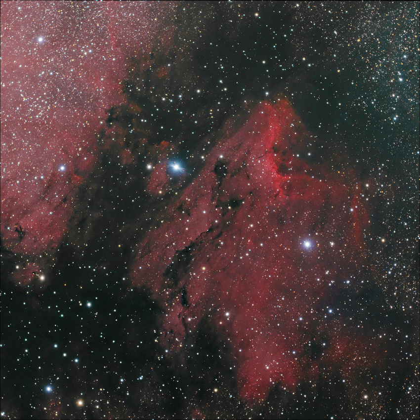 IC 5070 - "Pelican Nebula" in Cygnus